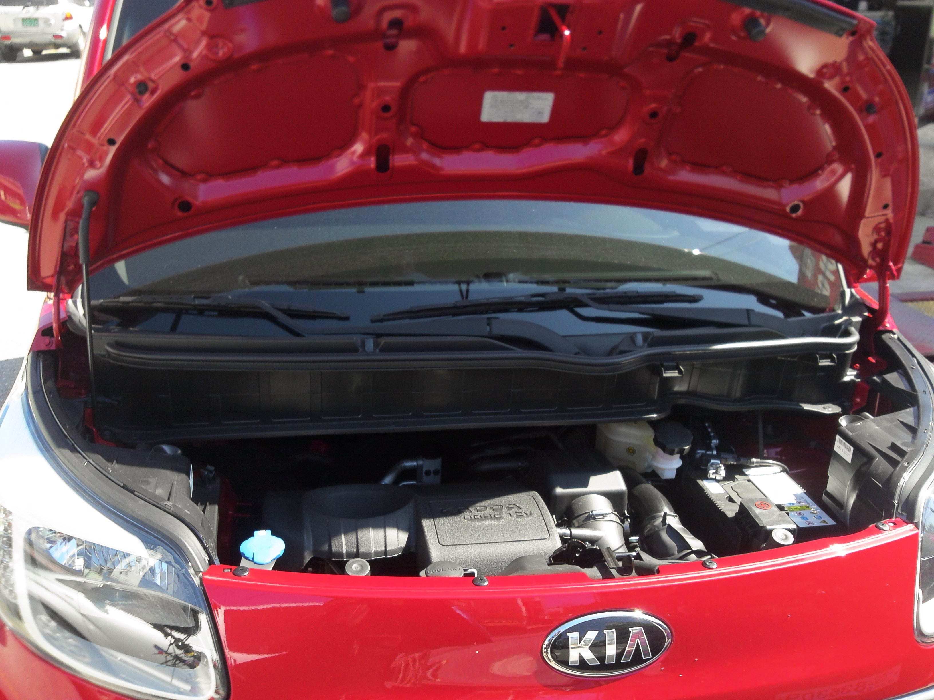 Engine Room of Kia Ray